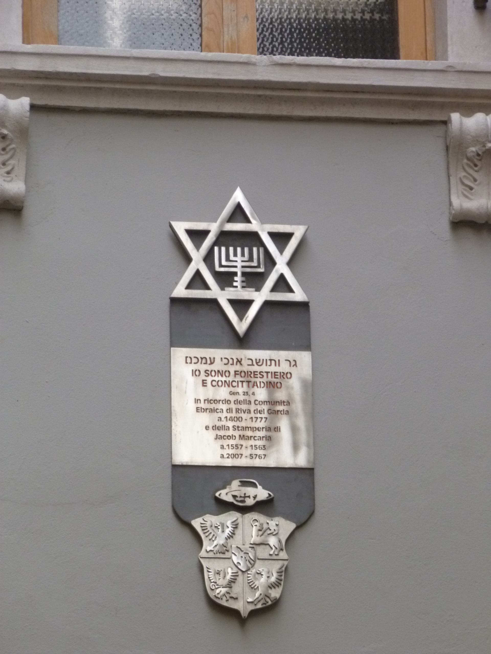 Commemorative plaque for the Jewish community of Riva del Garda (1400-1770) and for the Jewish printing press of Jacob Marcaria (1557-1563); Riva del Garda, Italy